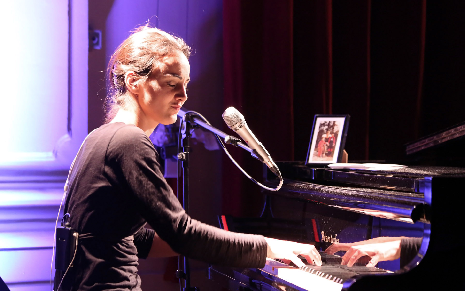 Tania Saedi and Sasha Saedi, concert at Casino Baumgarten in Vienna, Austria.